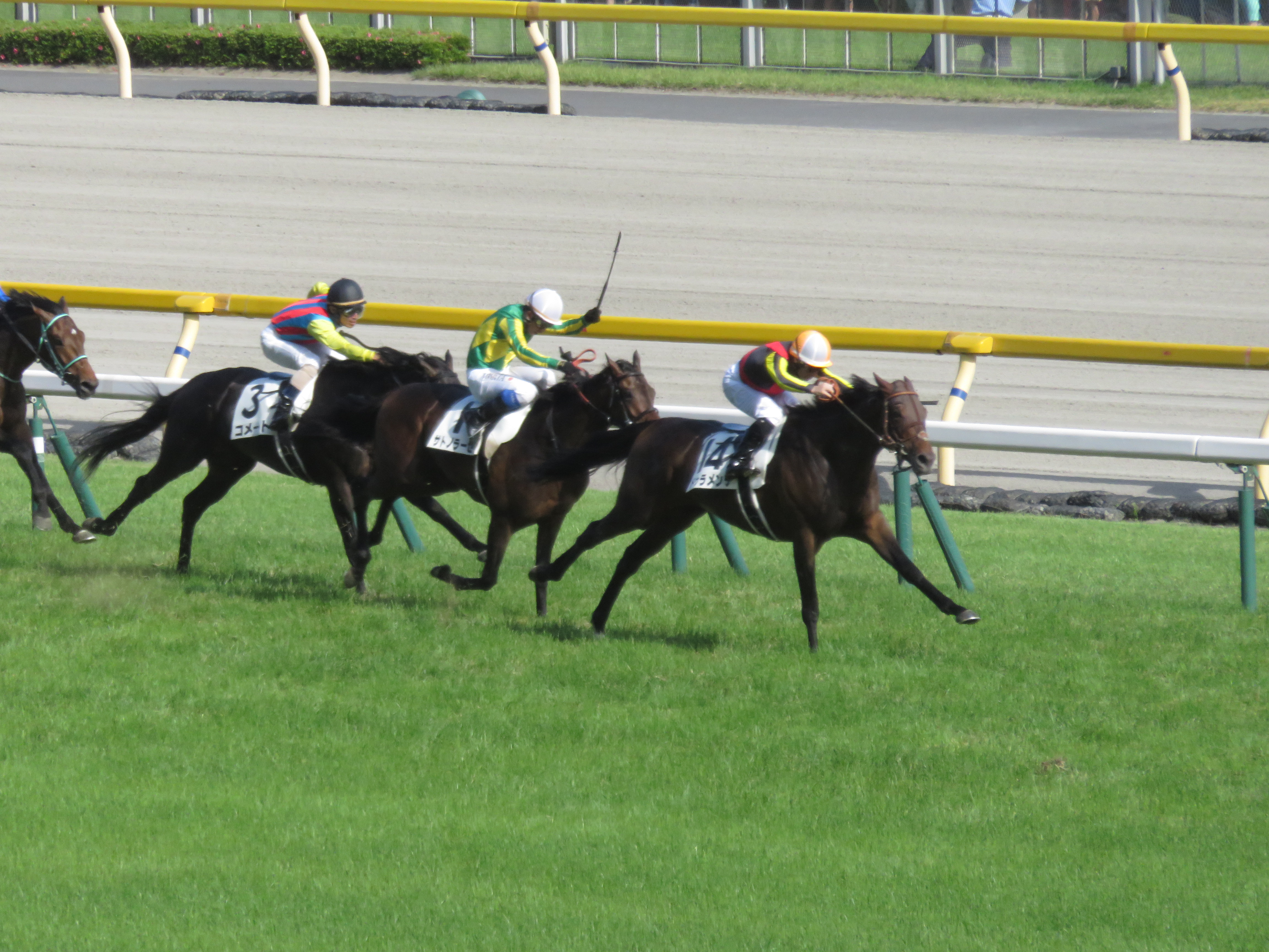 Duramente, the 82th Tokyo Yushun